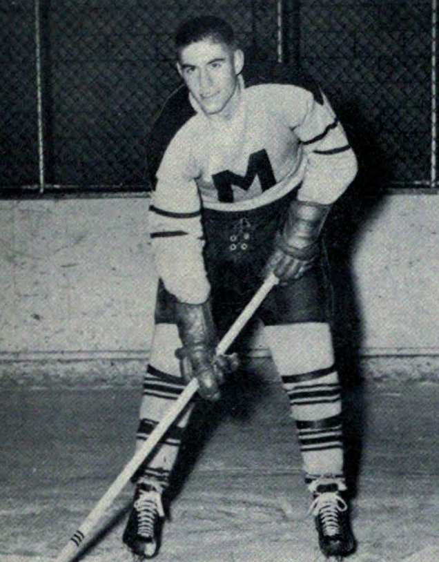 Wayne Mosdell, circa 1962